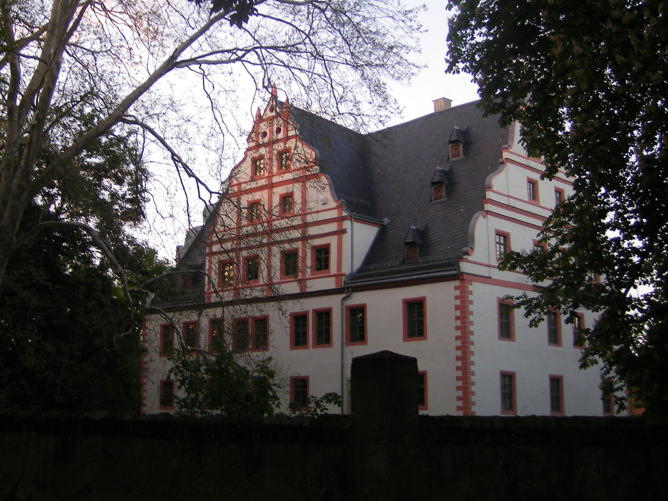 The wall of the castle in Ponitz, Thuringia, Germany.